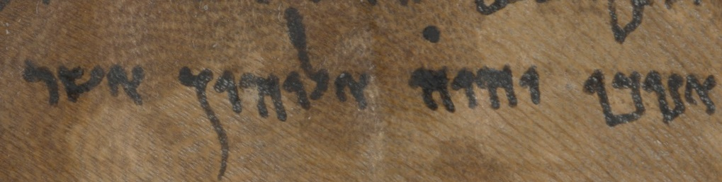 The words "I am the Lord your God, who" in the 4Q41 scroll of the Dead Sea Scrolls.